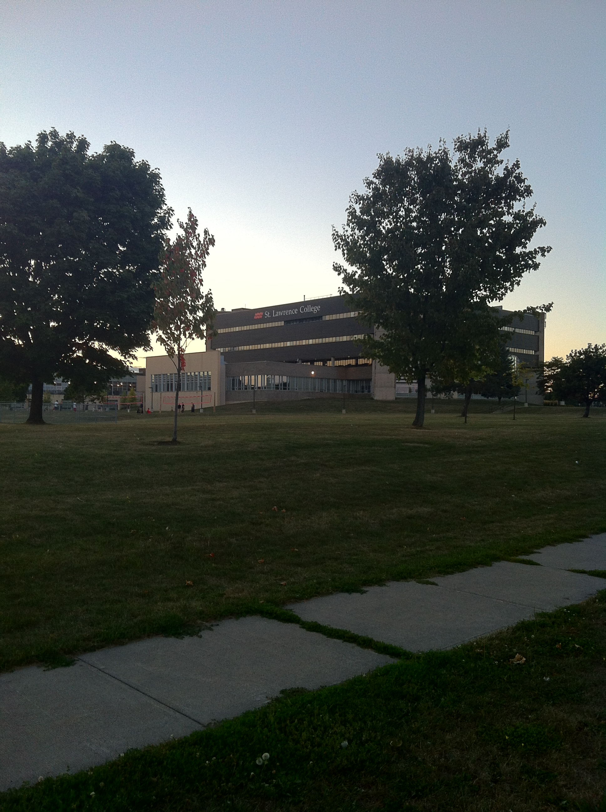 A photo of the St Lawrence College Kingston campus from Portsmouth avenue.